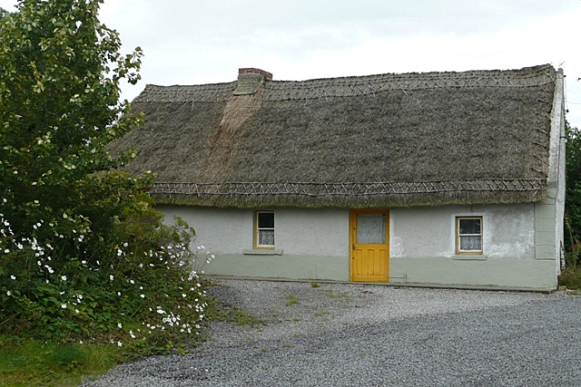 Cottage at Kiltoom Typical cottage, now renovated with a new thatched roof.